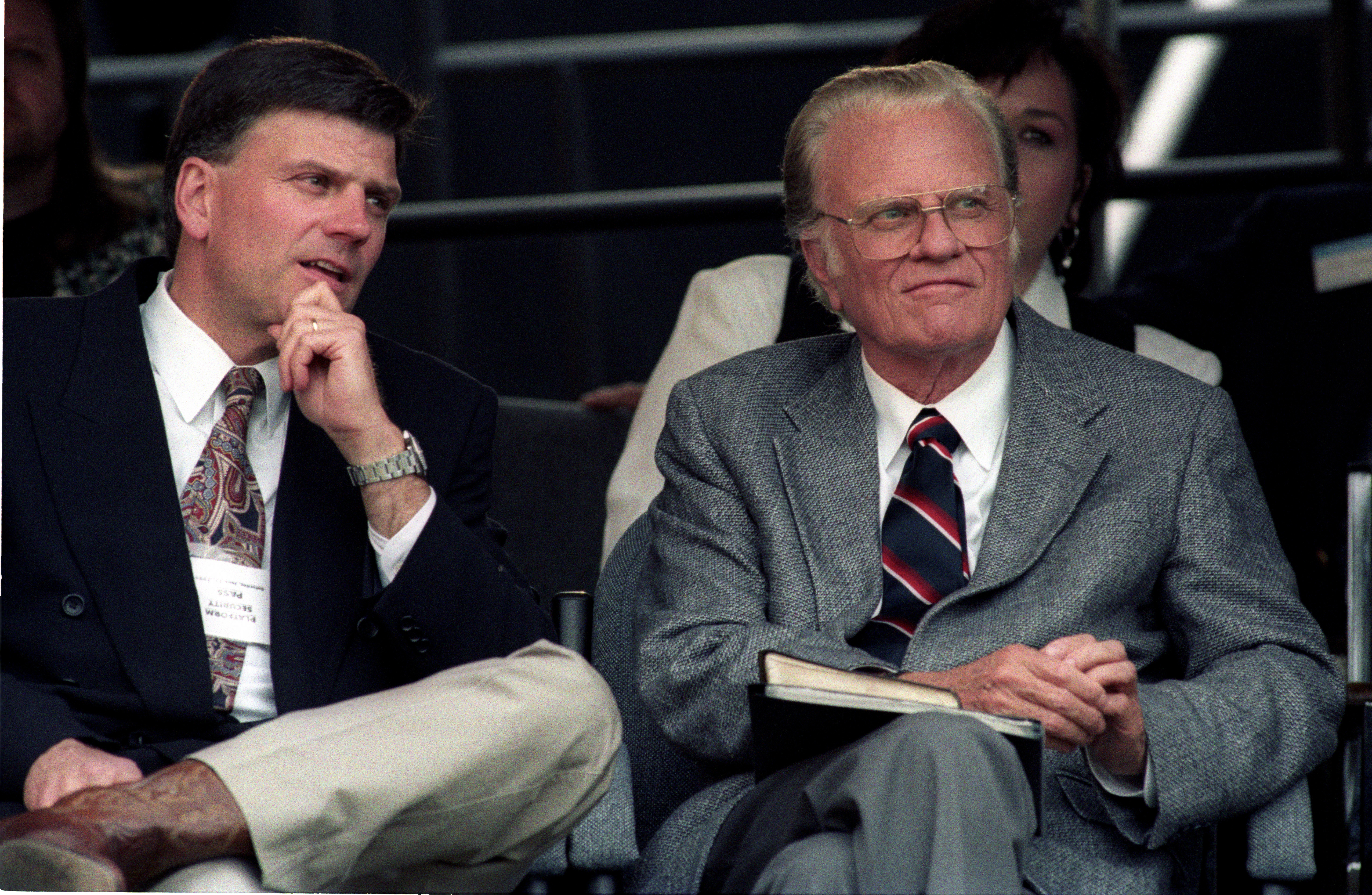 Franklin and Billy Graham, in Cleveland Stadium, in Cleveland Ohio, in June 1994